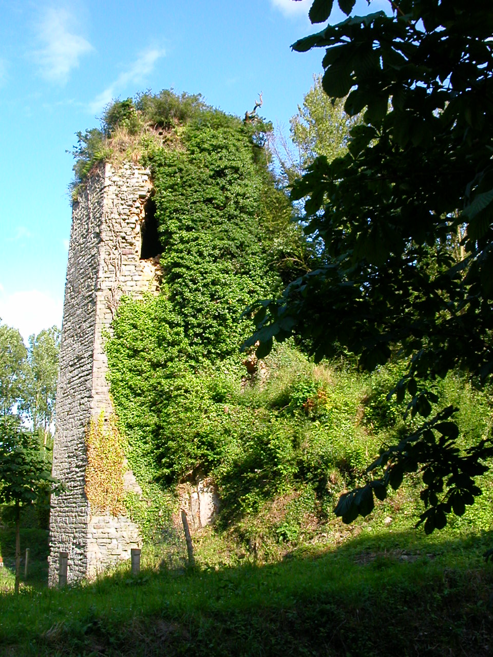 Ruins of the castle, Kez / La Chaézz, Cotes d'Armor, Brittany .